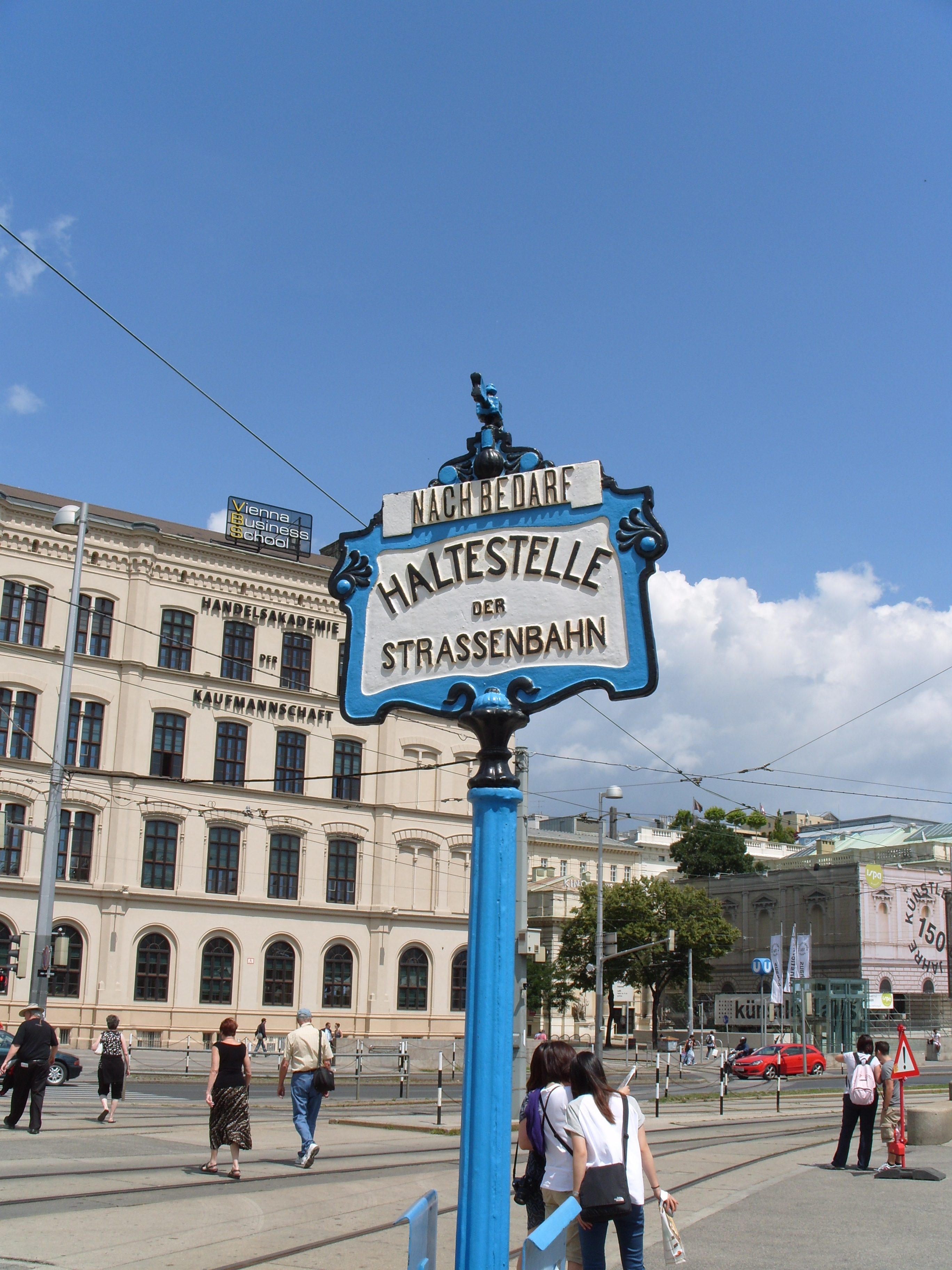 Makes ours look a little dull!